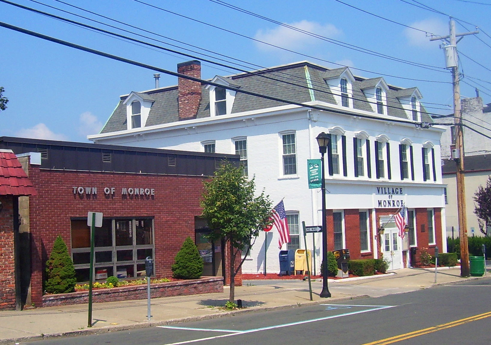 Adjacent yet separate municipal buildings for the town and village of Monroe, NY, USA